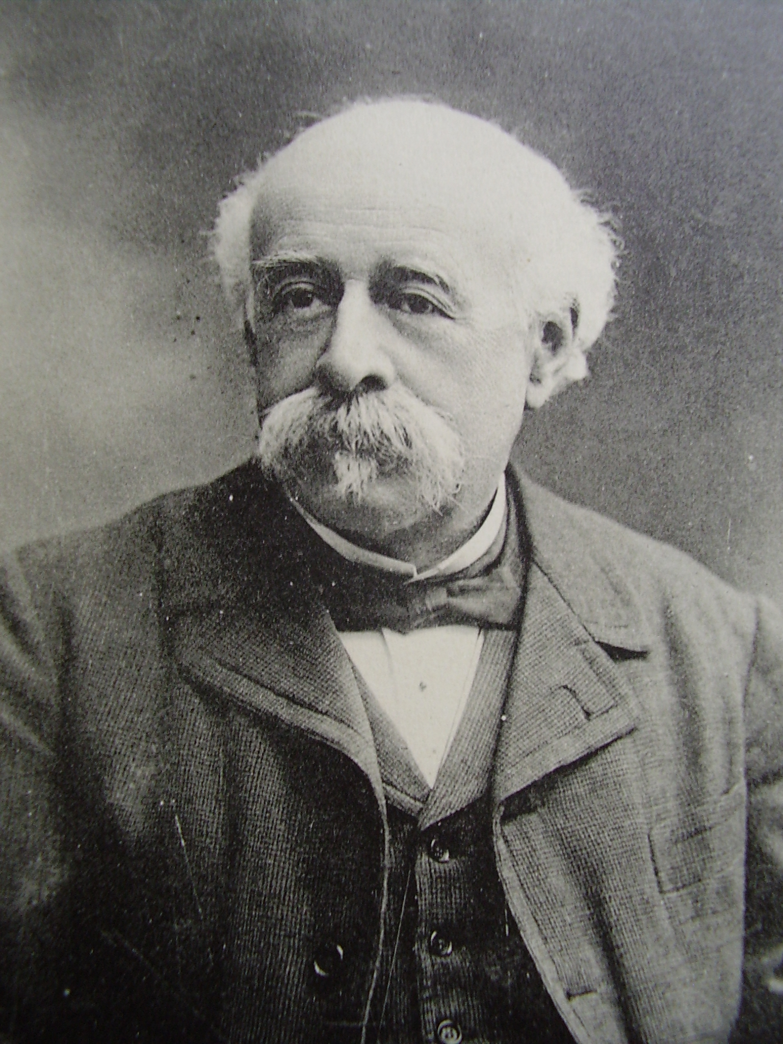 Louis Passy, member of French Parliament, 1910